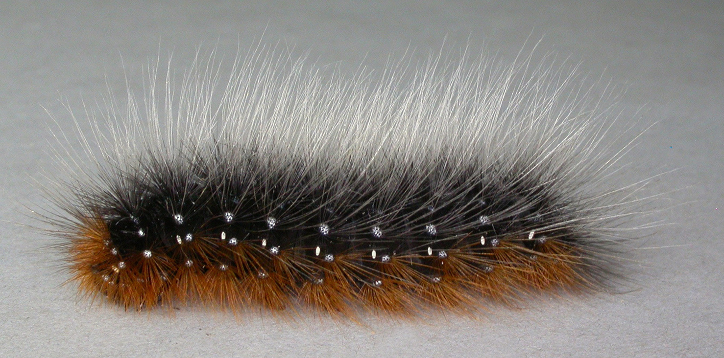 Arctia caja, Garden Tiger, Trawscoed, North Wales, May 2008